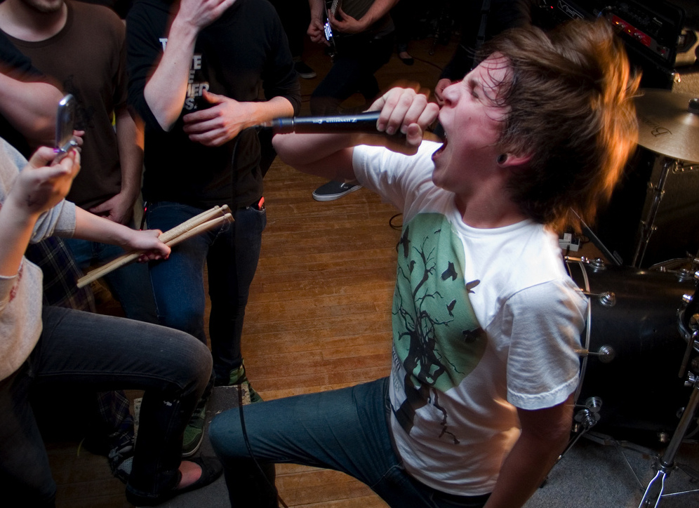 Our Last Night at the Eliot Grange Hall in Eliot, Maine on February 29, 2008.